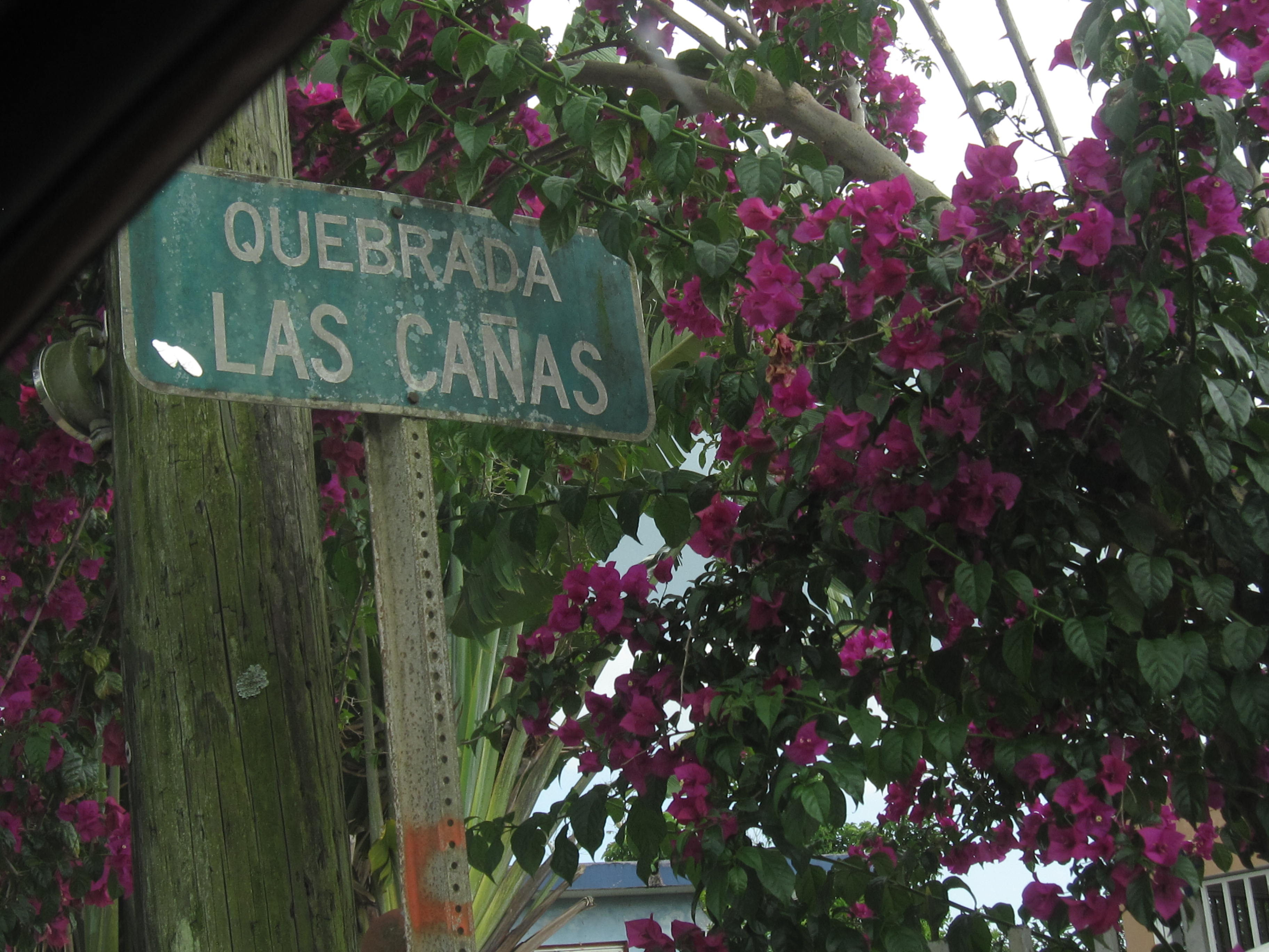 Sign for Quebrada Las Cañas on PR-119, San Sebastián, Puerto Rico